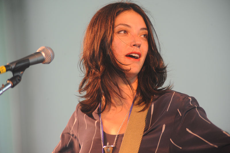 Sharon Van Etten (Newport Folk Festival 2012)